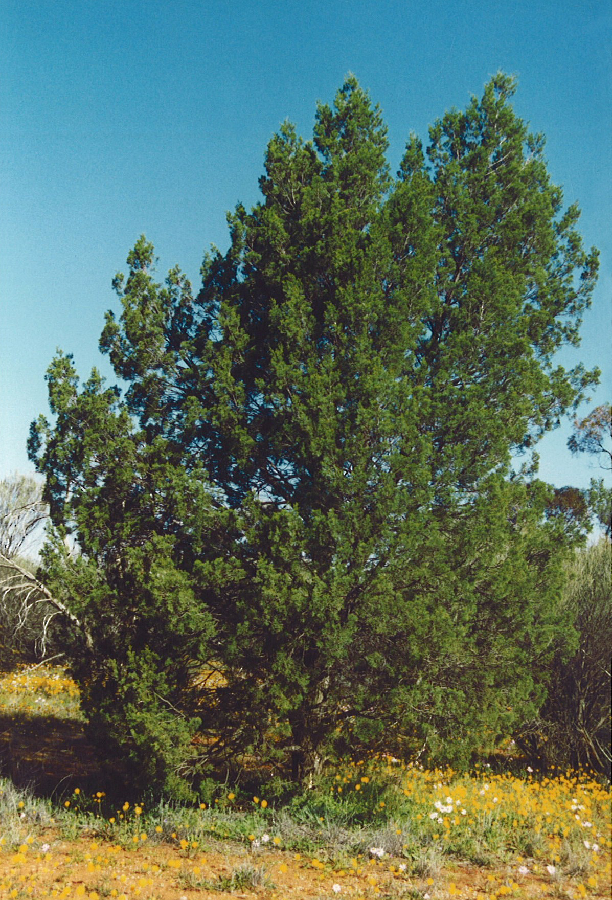 Callitris columellaris (syn. C. glaucophylla) at Paynes Find, Western Australia